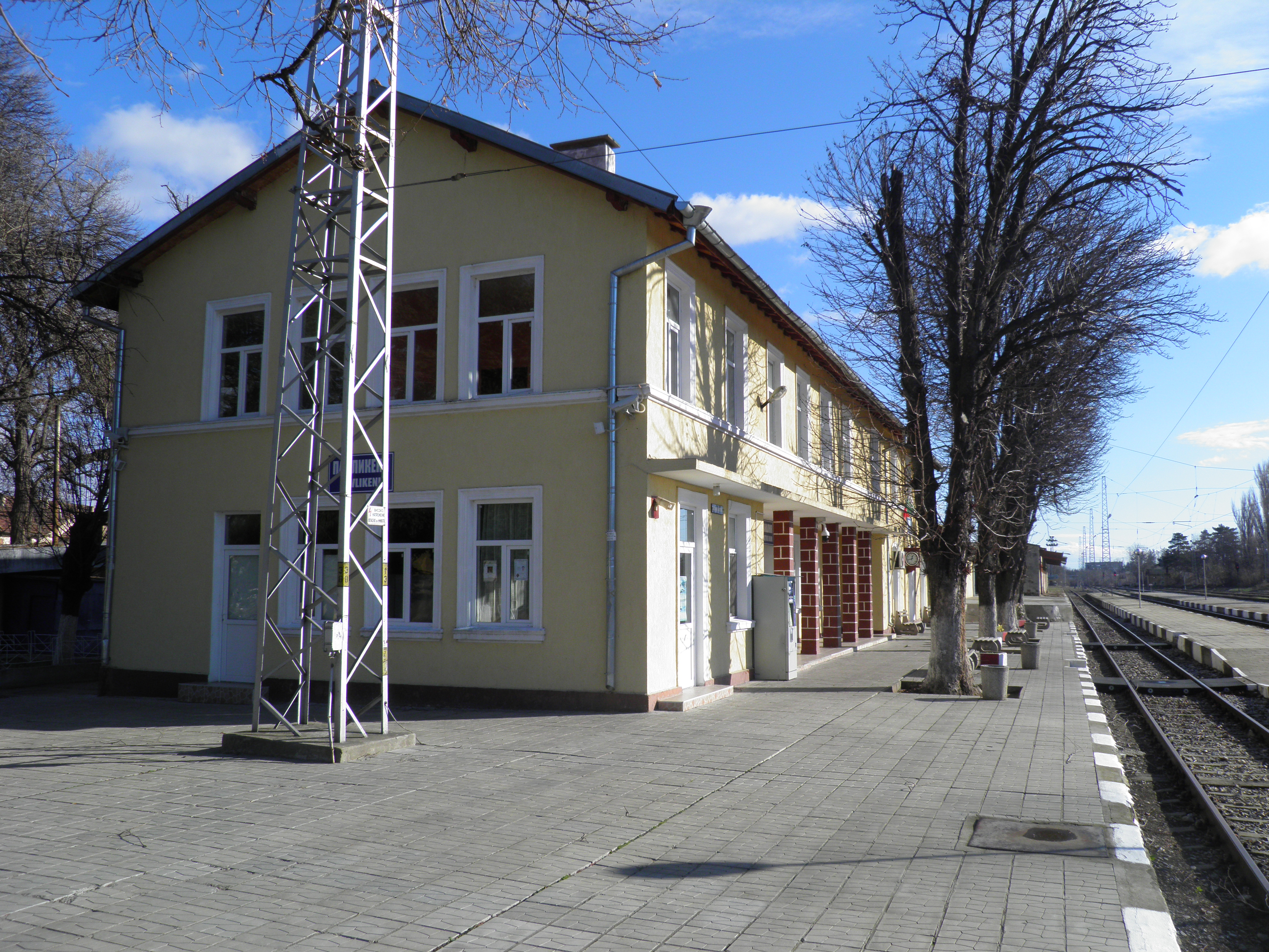 Train station in Pavlikeni,Bulgaria